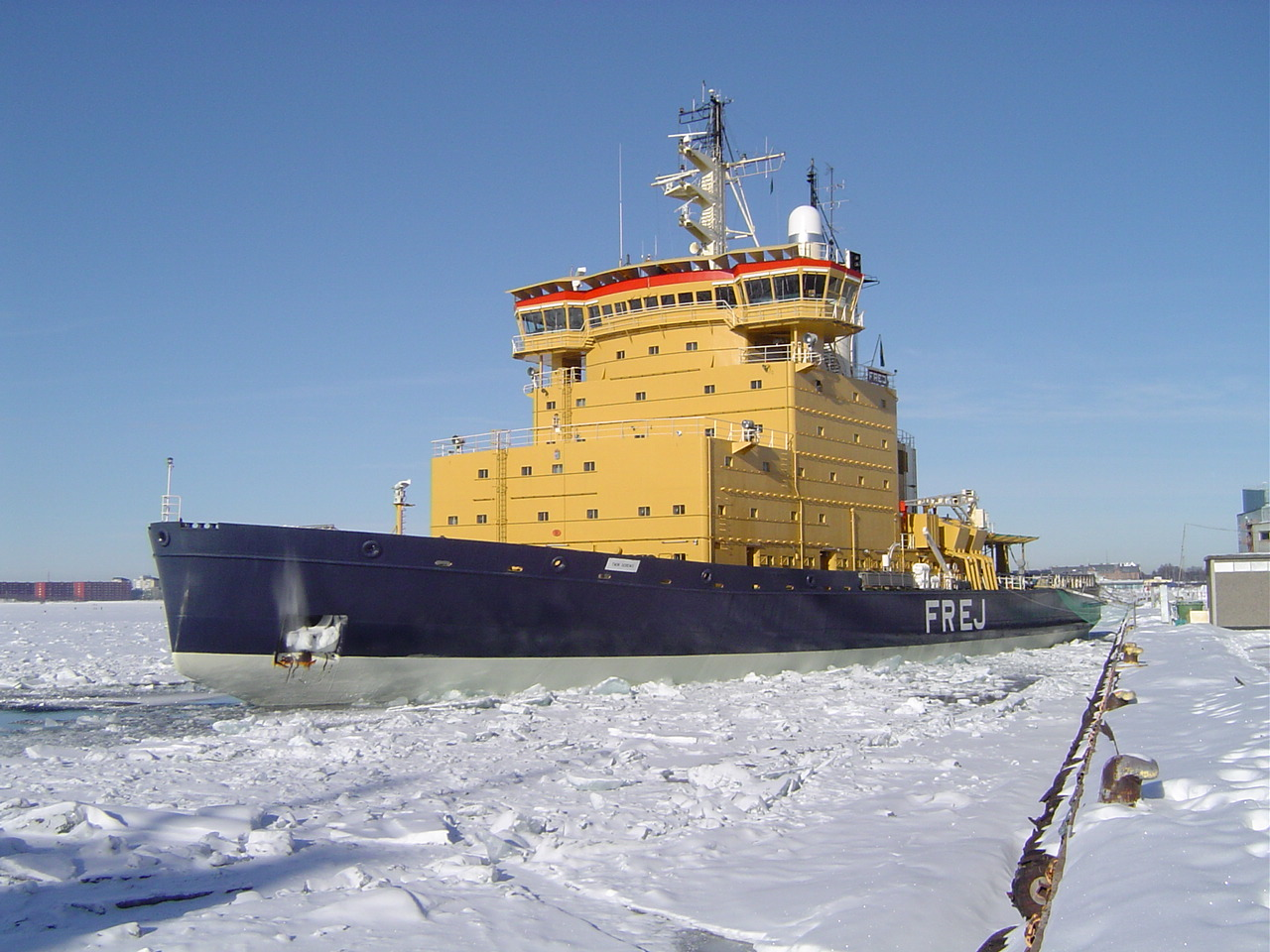 Icebreaker Frej, SBPT, IMO: 7359668, at berth